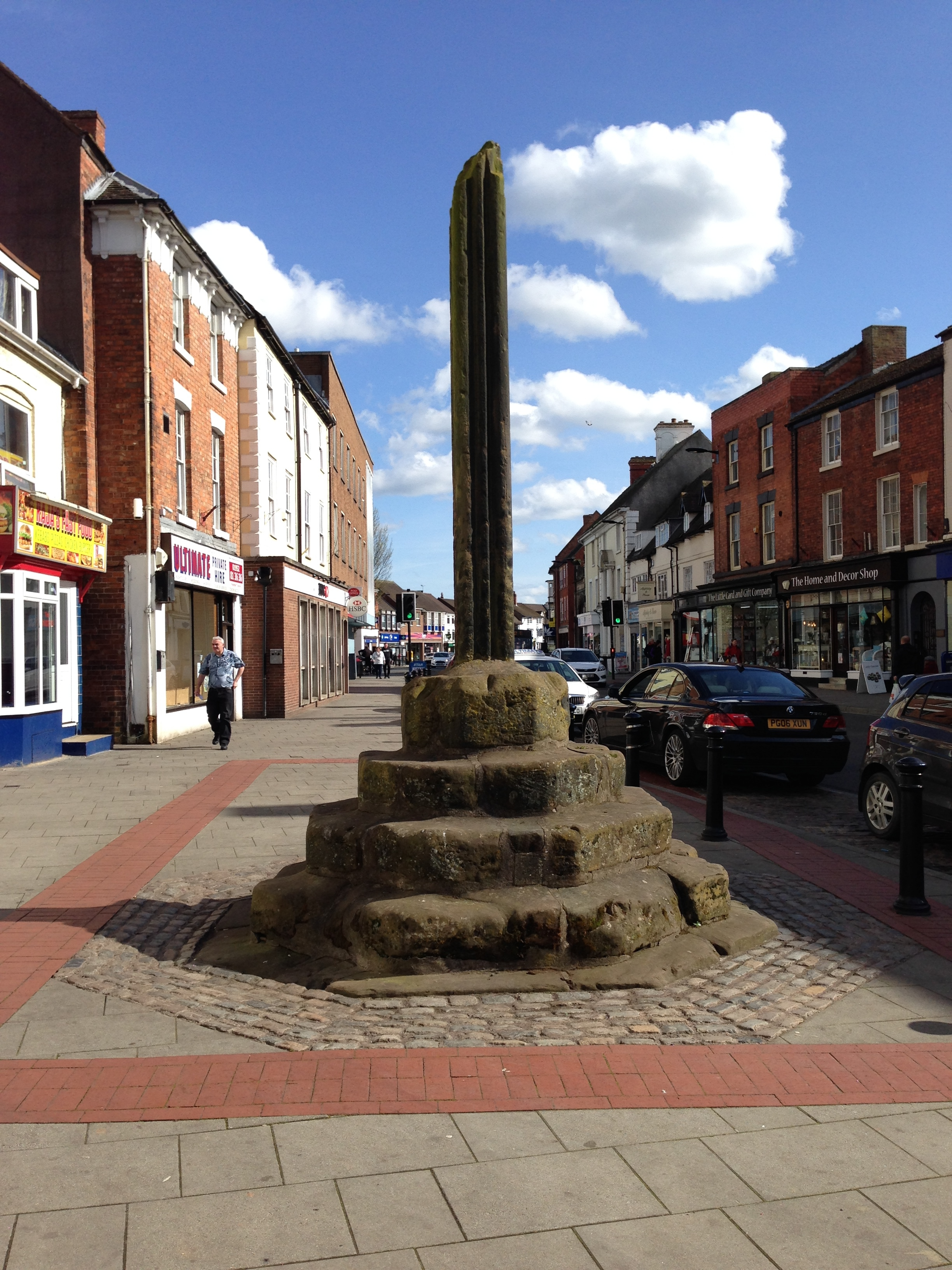 Set up c.1280 in memory of Sir Roger de Pyvelesdon, who died in 1272, as confirmed in a deed signed in 1285 by his son, also called Roger de Pyvelesdon. The de Pyvelesdon family were of 'Puleston', a place just outside Newport, in the parish of Chetwynd.